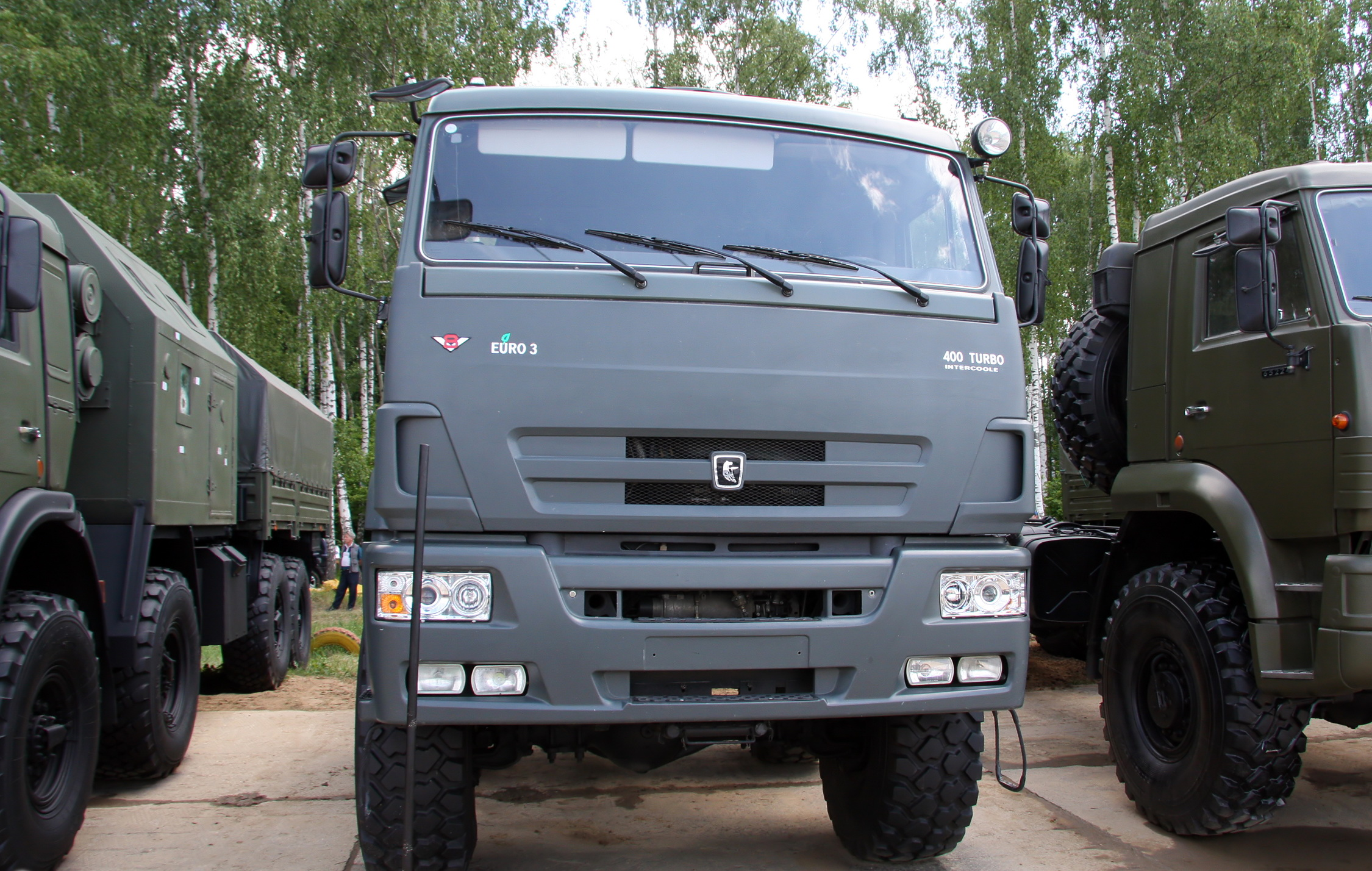 KamAZ-6560 (Exhibition of military vehicles at Bronnitsy test range)